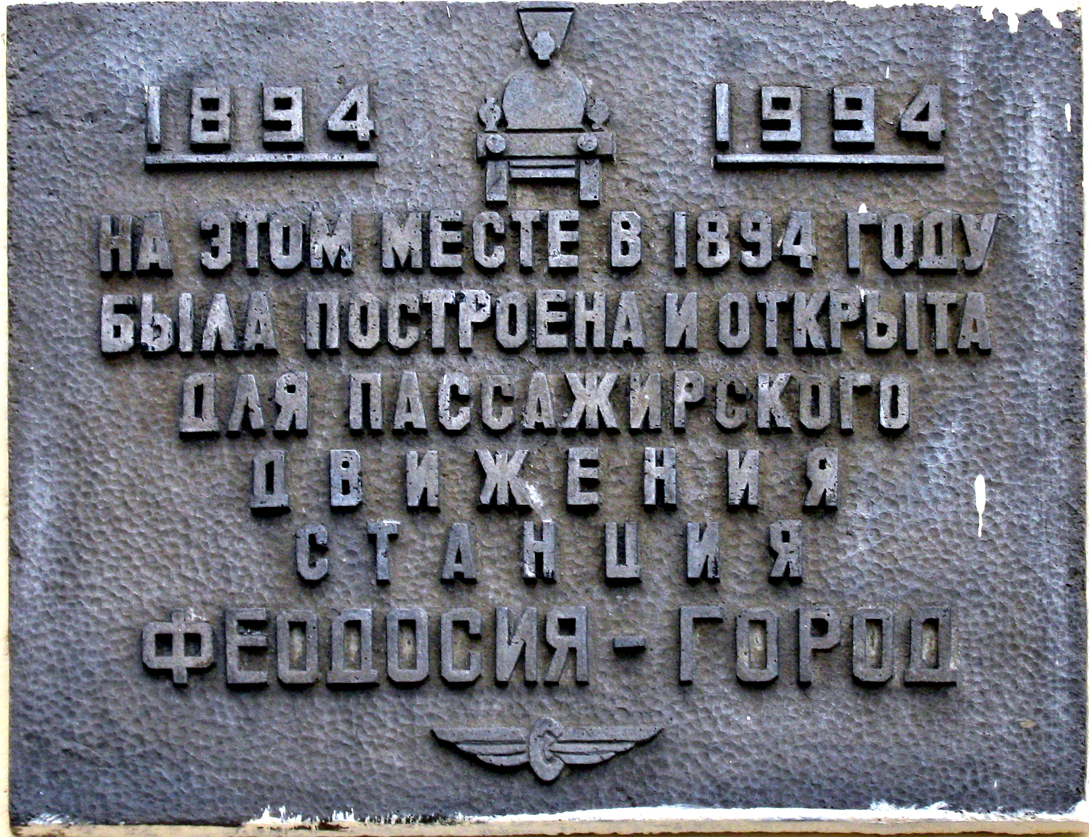 Memory desk. Railway station of Teodosia. 1894-1994.